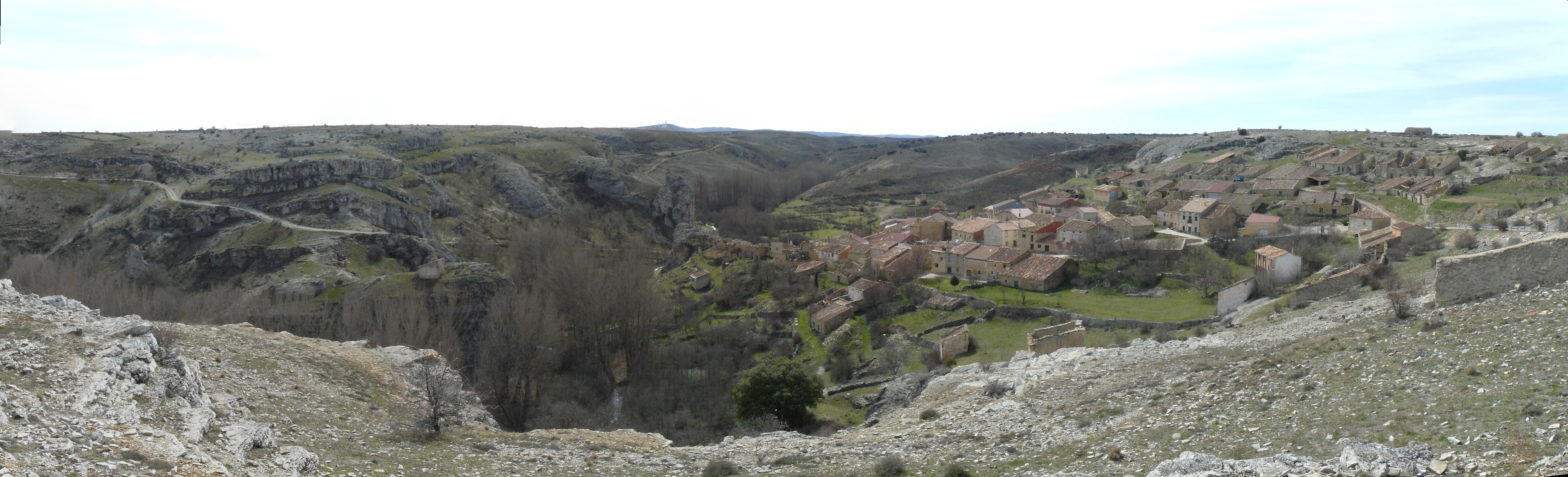 Torrevicente (Soria, Spain)